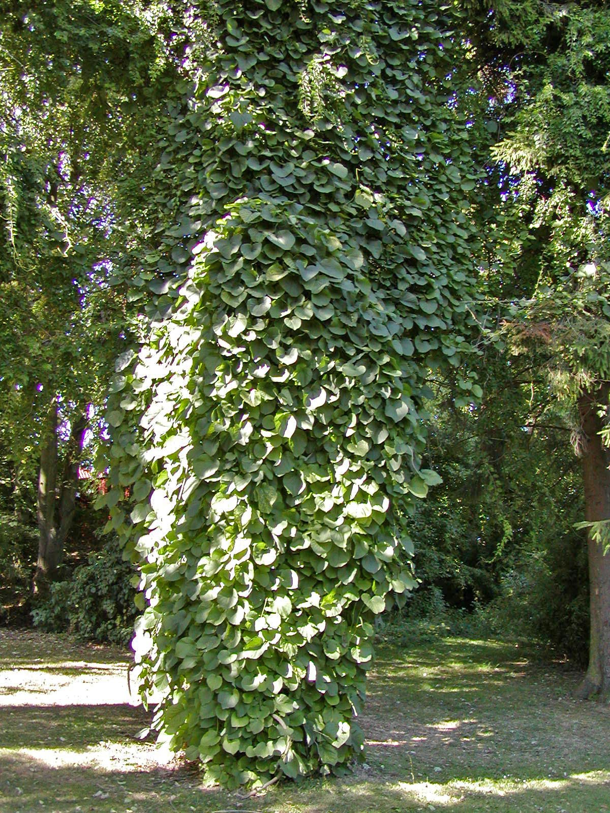 Photo of Aristolochia macrophylla at Aarhus Botanical Garden